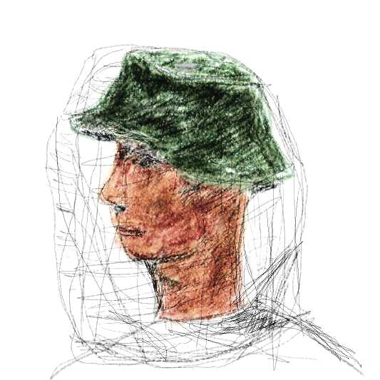 This "hat" is against insects